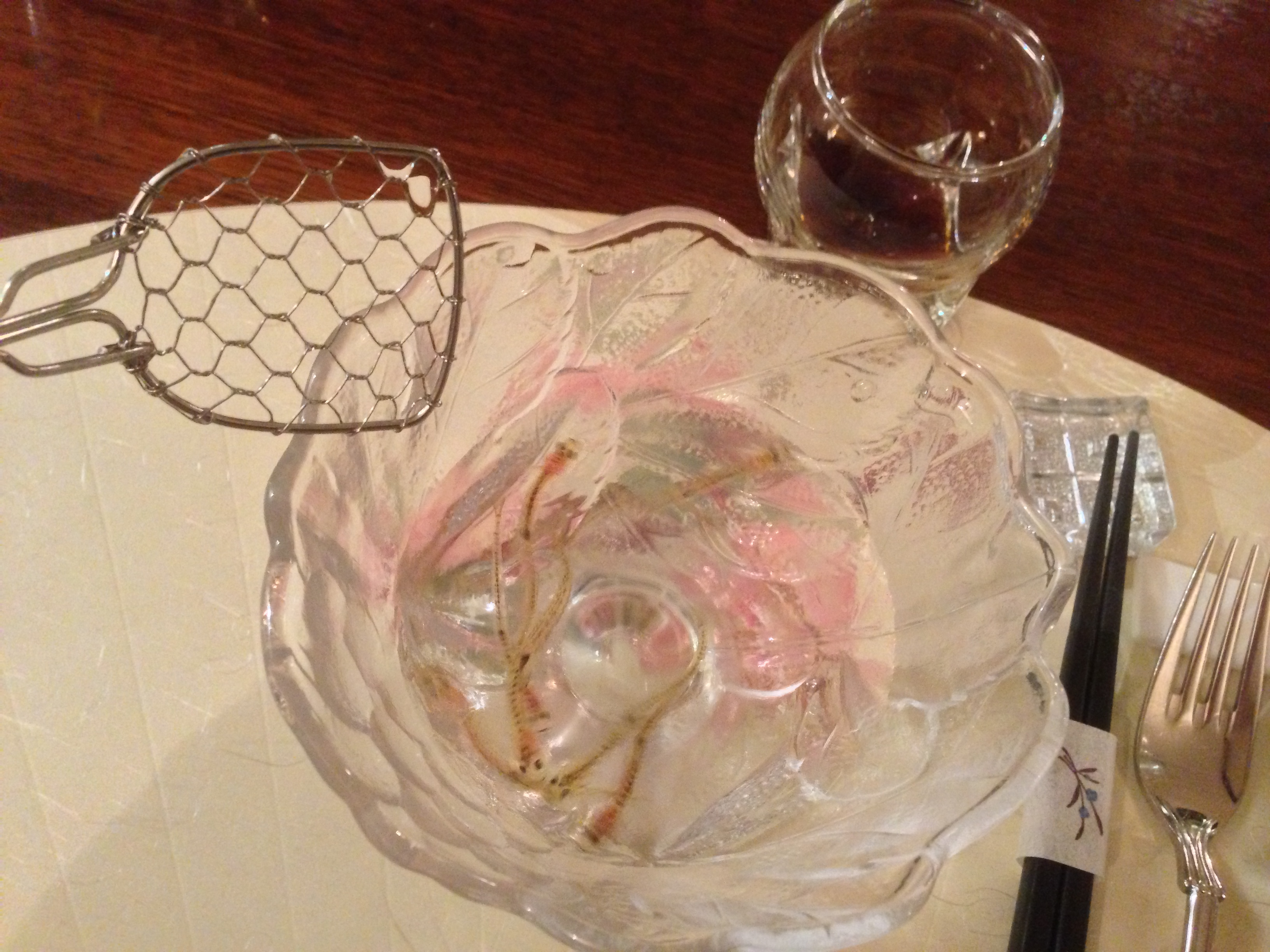 Odorigui of Ice goby (Leucopsarion petersii) in Japan